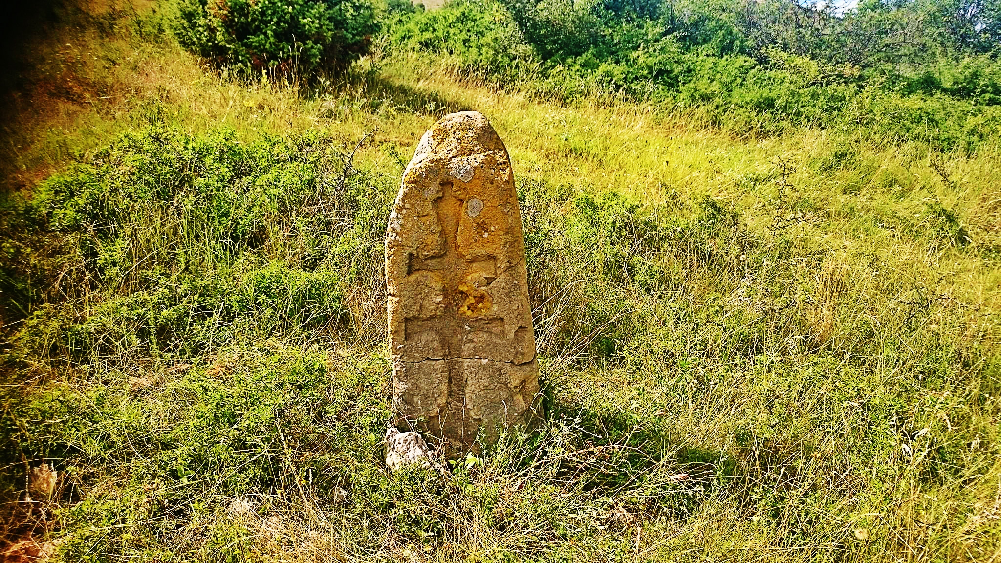 Menhir Mureno BG